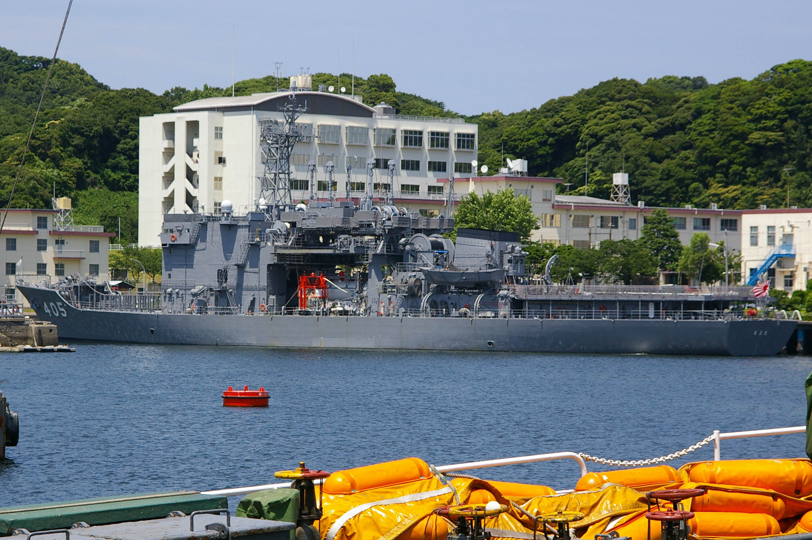 JS Chiyoda (AS-405) at Yokosuka.